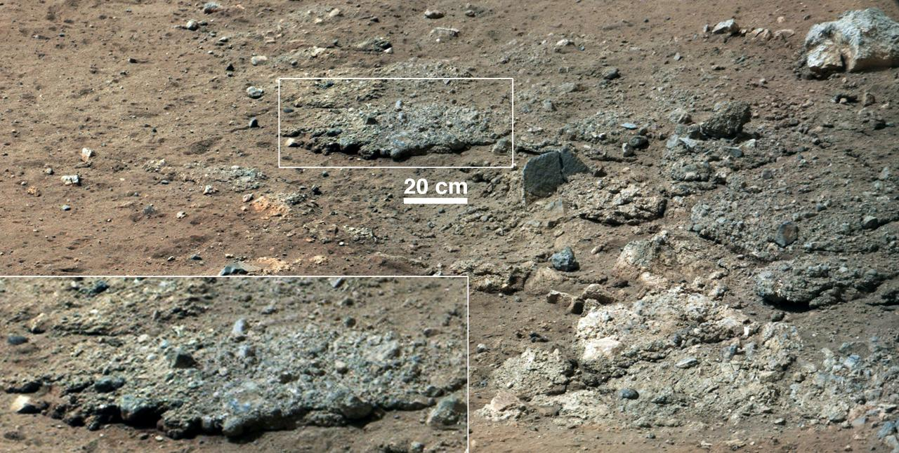 09.27.2012 Best View of Goulburn Scour This image from NASA's Curiosity Rover shows a high-resolution view of an area that is known as Goulburn Scour, a set of rocks blasted by the engines of Curiosity's descent stage on Mars. It shows a section from a mosaic of a pair of images obtained by Curiosity's 100-millimeter Mast Camera, with three times higher resolution than previously released. Details of the layer of pebbles can be seen in the close-up. These two images were the first views of this sandy conglomerate, a sedimentary layer laid down by water in the very distant past and uncovered in August 2012 during the rover's landing. The inset magnifies the area by a factor of two. Mastcam obtained these images on Aug. 19, 2012, or the 13th sol, or Martian day, of Curiosity's surface operations.